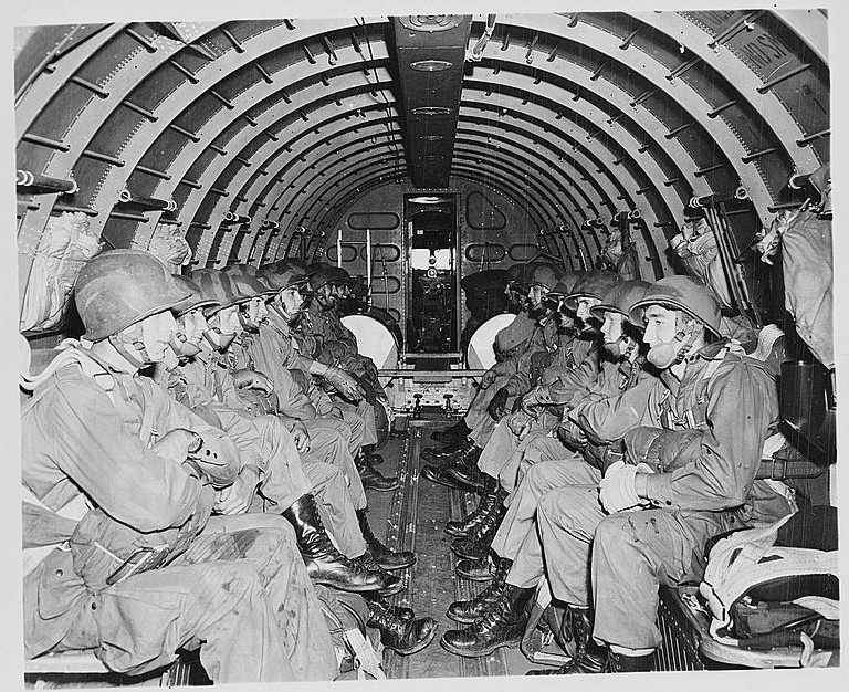 U.S. Army paratroopers in a Douglas C-47 in 1942. The caption claims that this photo was taken in "England", although the other photos in this series were taken in the southern U.S. Also, the 82nd and 101st airborne divisions were not deployed to the United Kingdom in 1942. Original caption: "U.S. paratroopers awaiting orders to jump during manuevers somewhere in England."